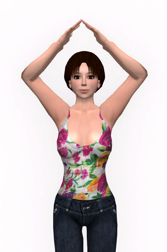 "A" Dance of Ayame Goriki (Japanese singer)